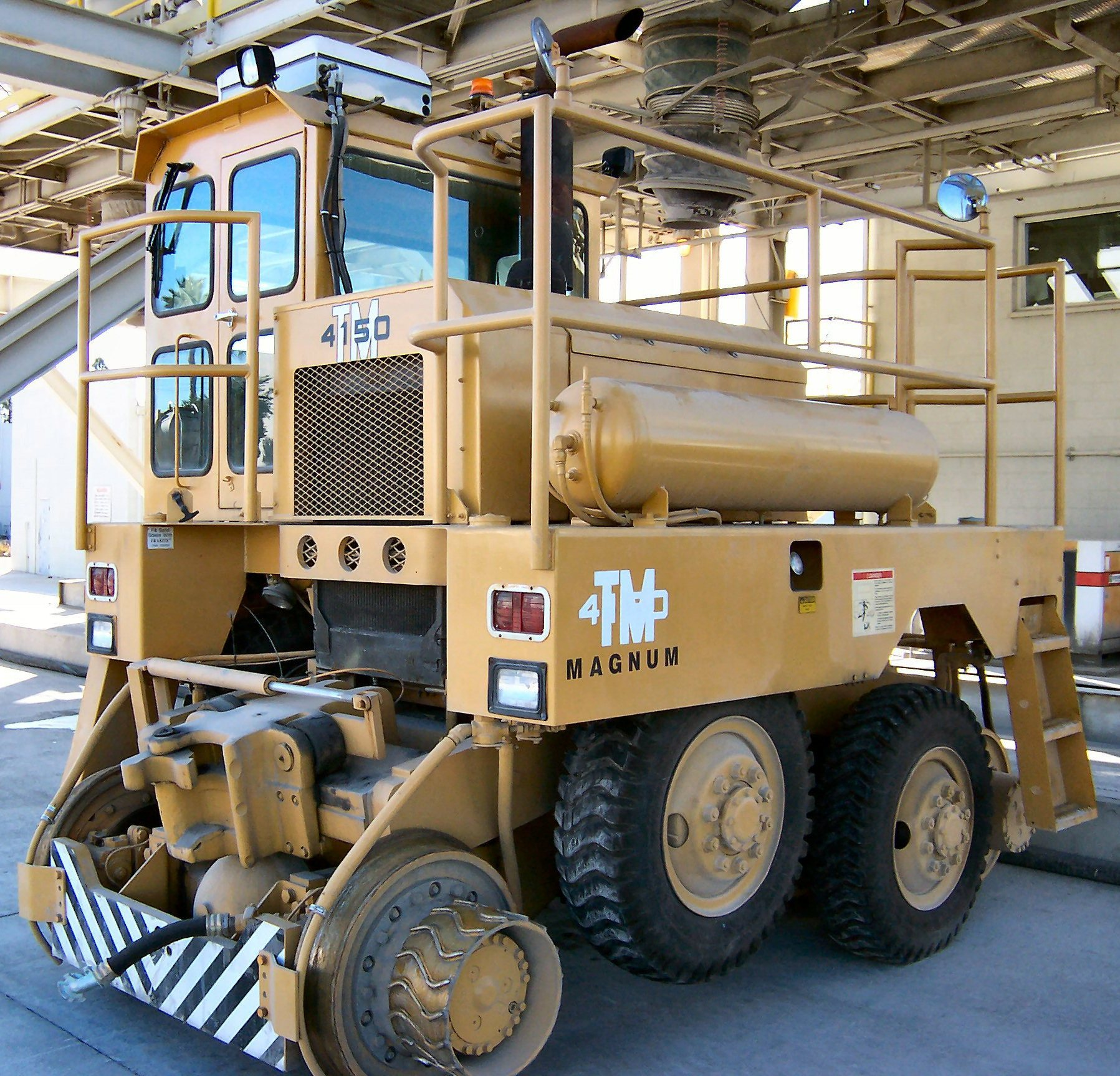 A Trackmobile 4150 Magnum rail car mover at La Mirada, California, USA